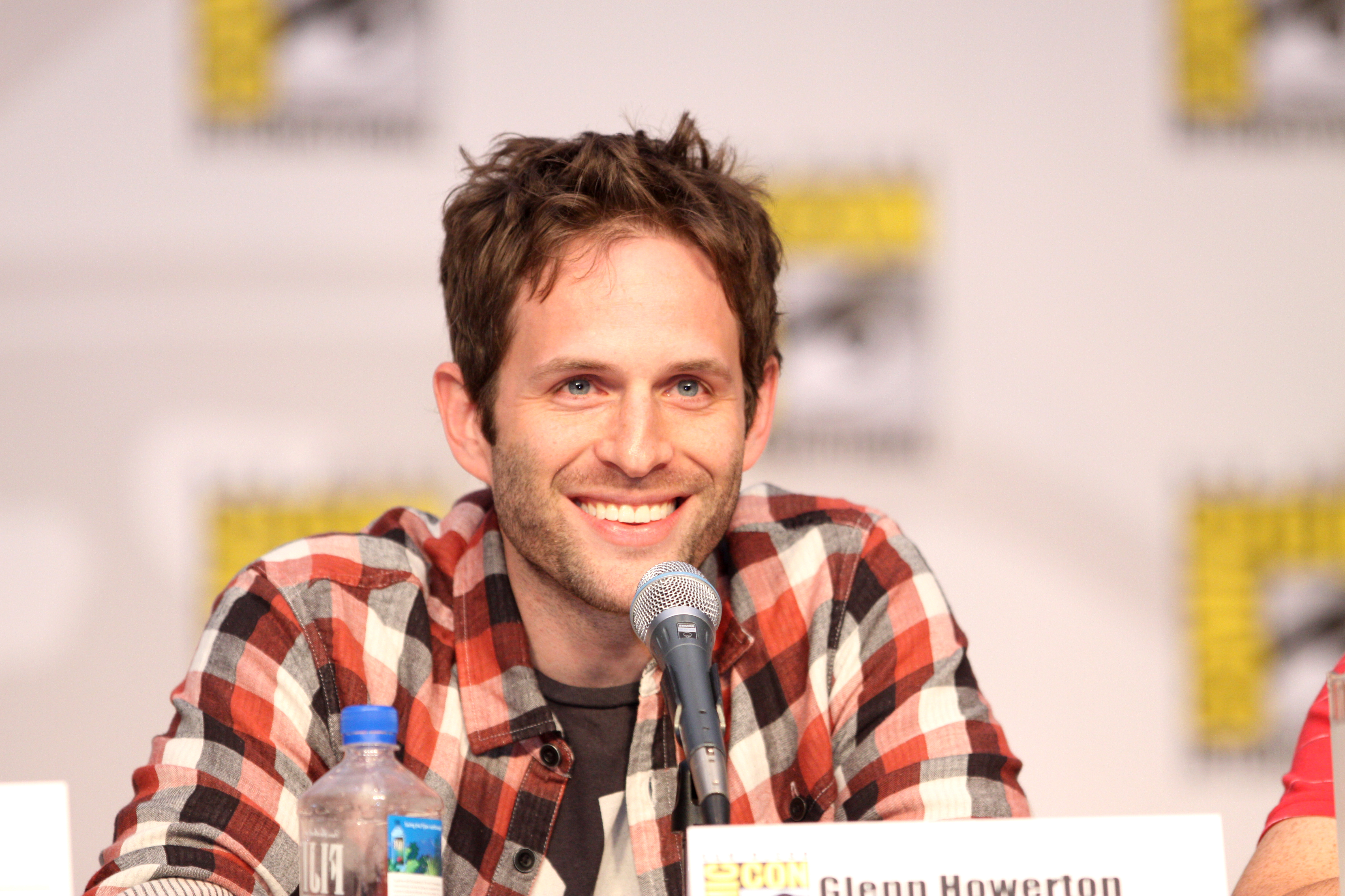 Actor Glenn Howerton on the It's Always Sunny in Philadelphia panel at the 2010 San Diego Comic Con in San Diego, California.